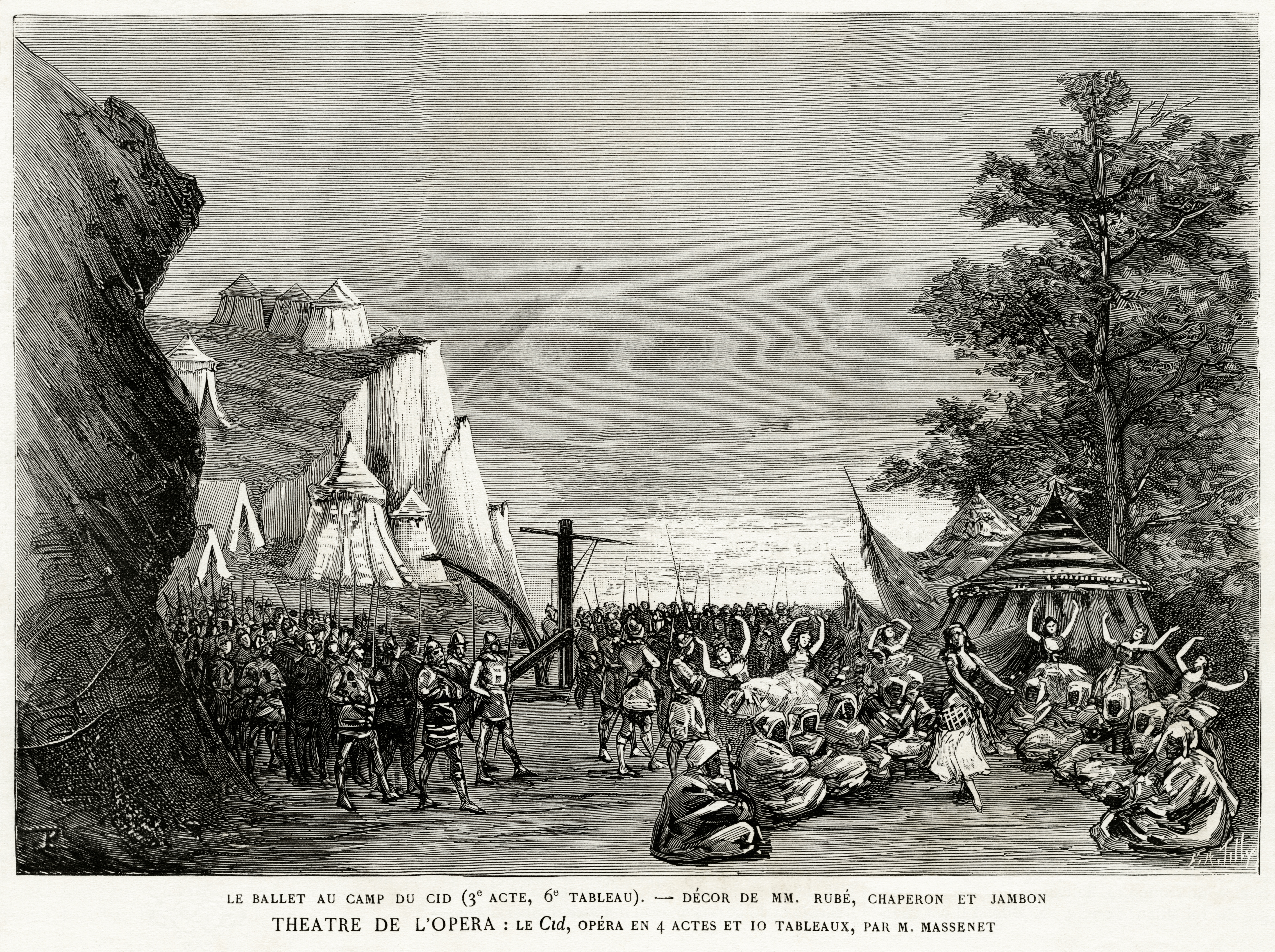 Act 3, Scene 6 (The Ballet at Le Cid's camp of Jules Massenet's Le Cid, as seen in the 5 Décembre 1885 issue of L'Illustration covering its première.